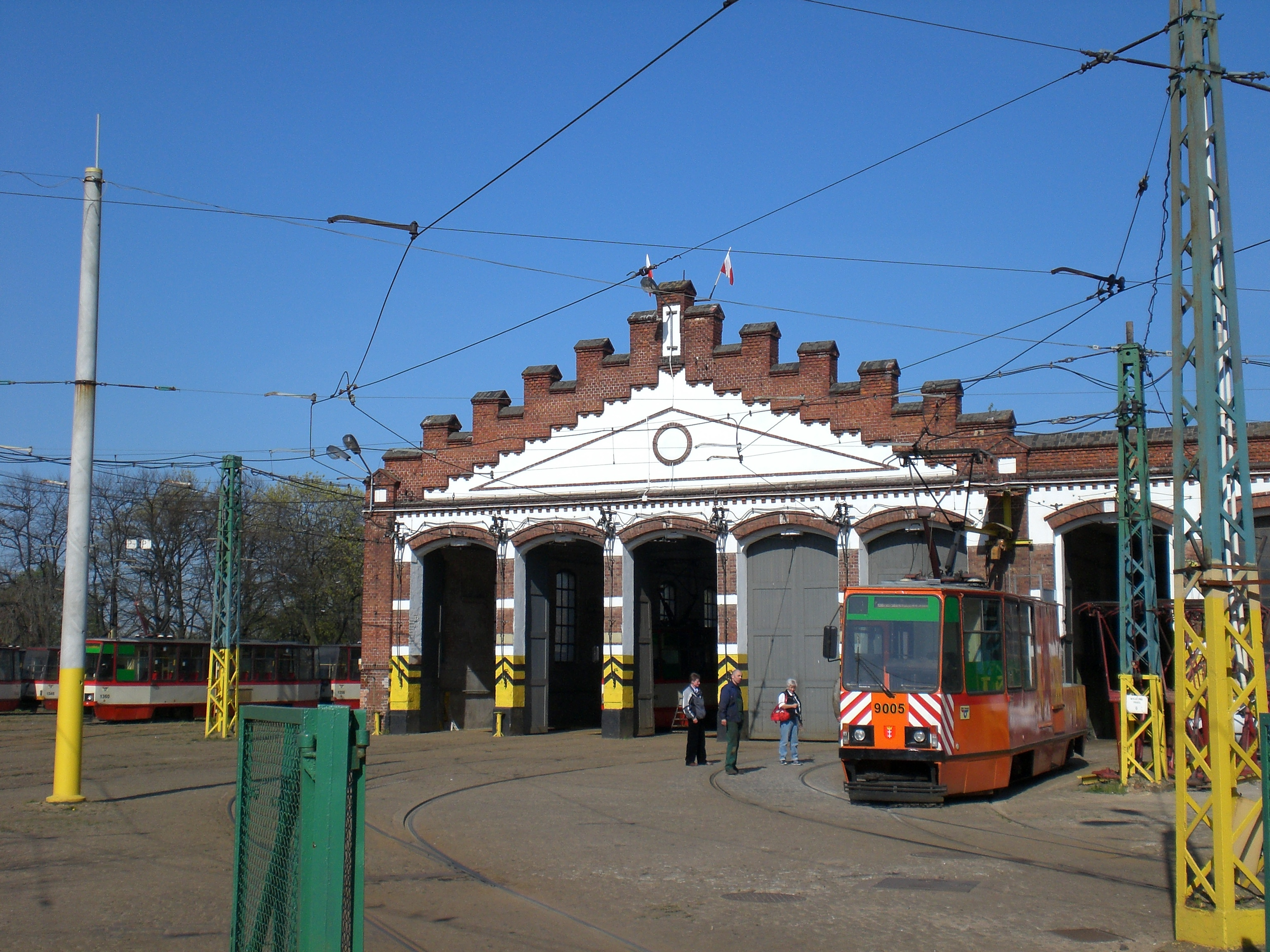 Tram depot in Gdańsk Nowy Port